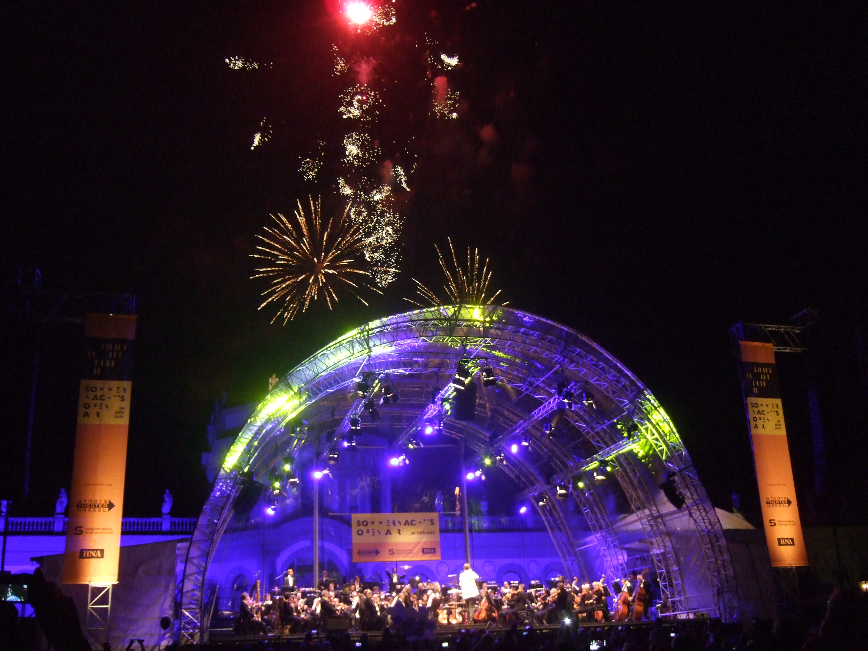 HNA Sommer Open Air 2016 firework